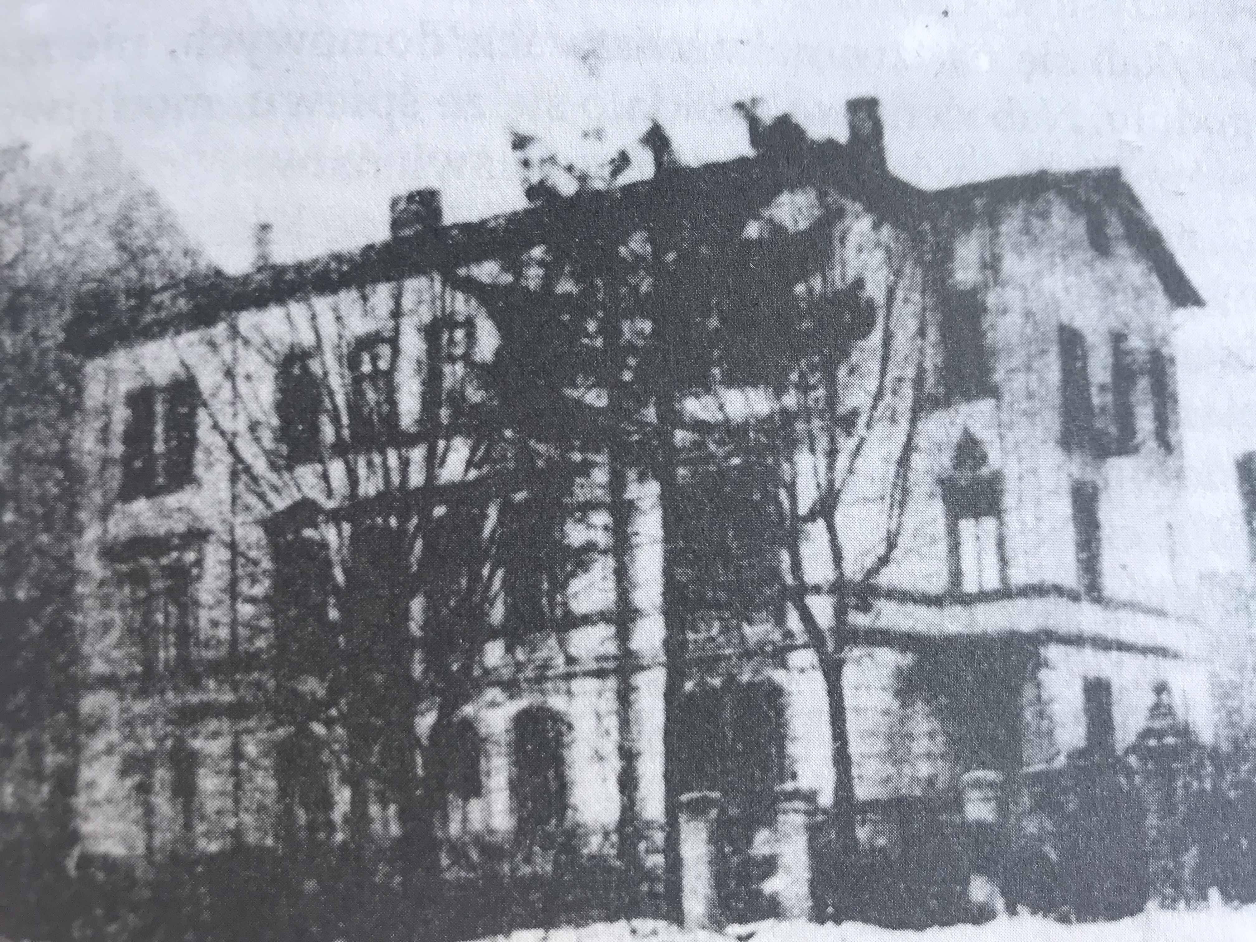 Picture of the Mennonite house of prayer in Lwów located at 23 Kochanowskiego street (before WWII). Photograph is taken from the book: Henryk Ryszard Tomaszewski, "Wspólnoty chrześcijańskie typu ewangeliczno-baptystycznego na terenie Polski w latach 1858-1939", Warszawa 2006, page 81. Building was designed by architect Władysław Godowski and constructed in 1888. Present name of location: 23 Levytskoho Street, Lviv, Ukraine.